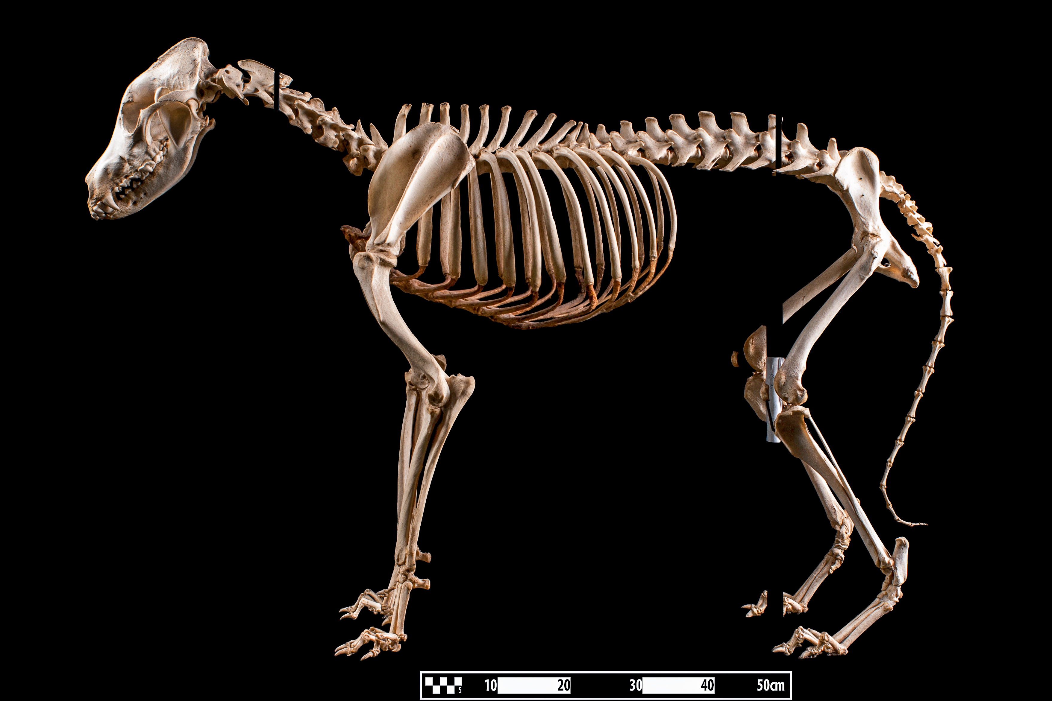 Specimen of mutt dog skeleton prepared by the bone maceration technique and on display at the Museum of Veterinary Anatomy, FMVZ USP